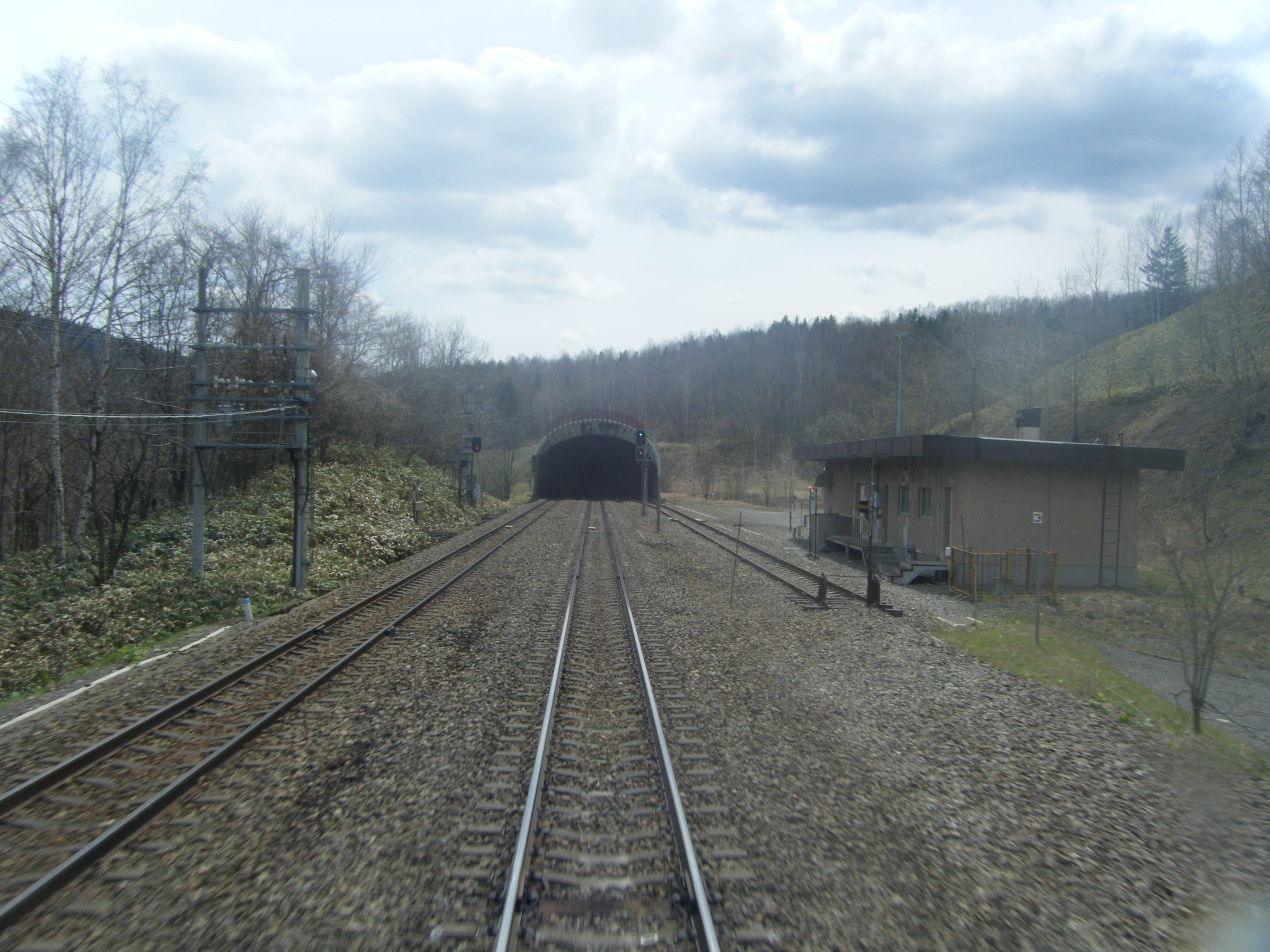 Seifuzan Signal Base viewed from Super Ozora train